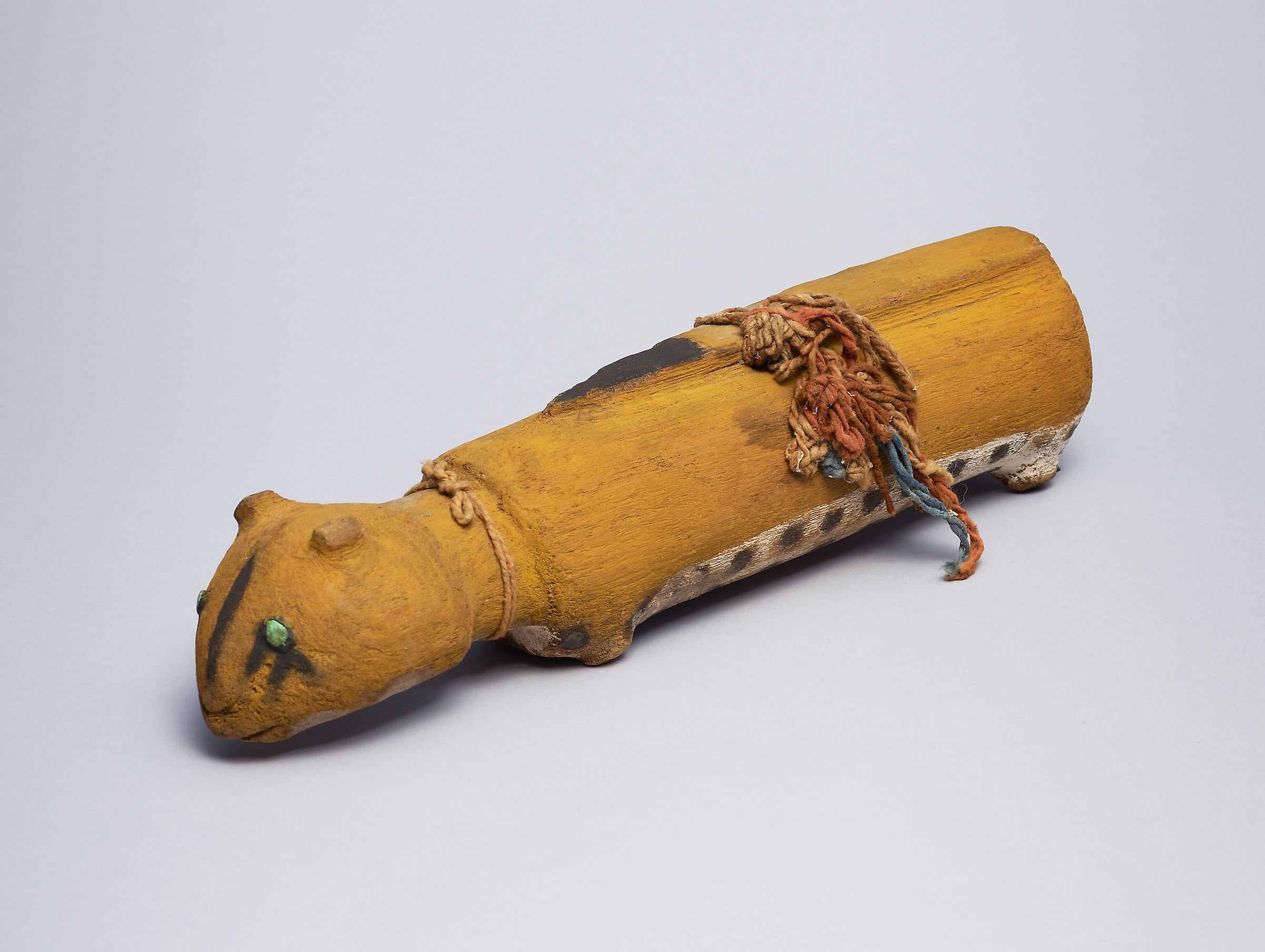 The accompanying figures are a mountain lion (the chief predator in the region) and two serpents (carved from cottonwood roots), representing agents of communication with the earth and the seasonal cycle of fertility. Curved wooden throwing sticks for rabbit hunting complete the ensemble. Testimony to the antiquity and endurance of the worship of earth and sky and to the spiritual bonds between people and animals, these objects bear close resemblance to ritual figures and implements still used today among the diverse Pueblo peoples. Note the similarity to present-day Zuni fetishes. This one appears to be carved from cottonwood wood.